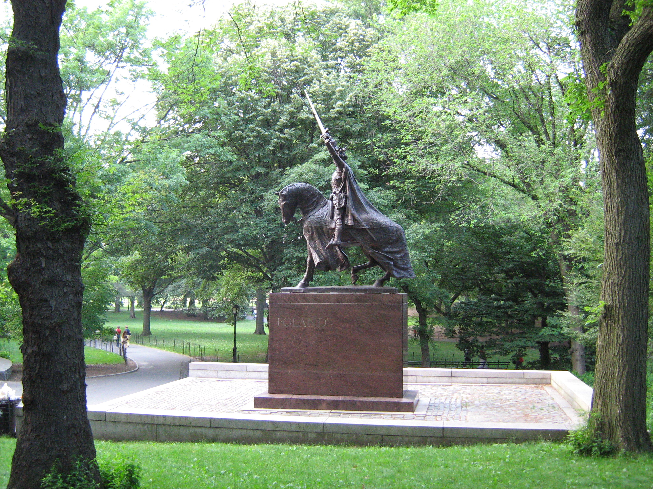 Statue of Jogaila (Władysław II Jagiełło) Poland. The King Jagiello Monument located in Central Park New York City, New York, USA.